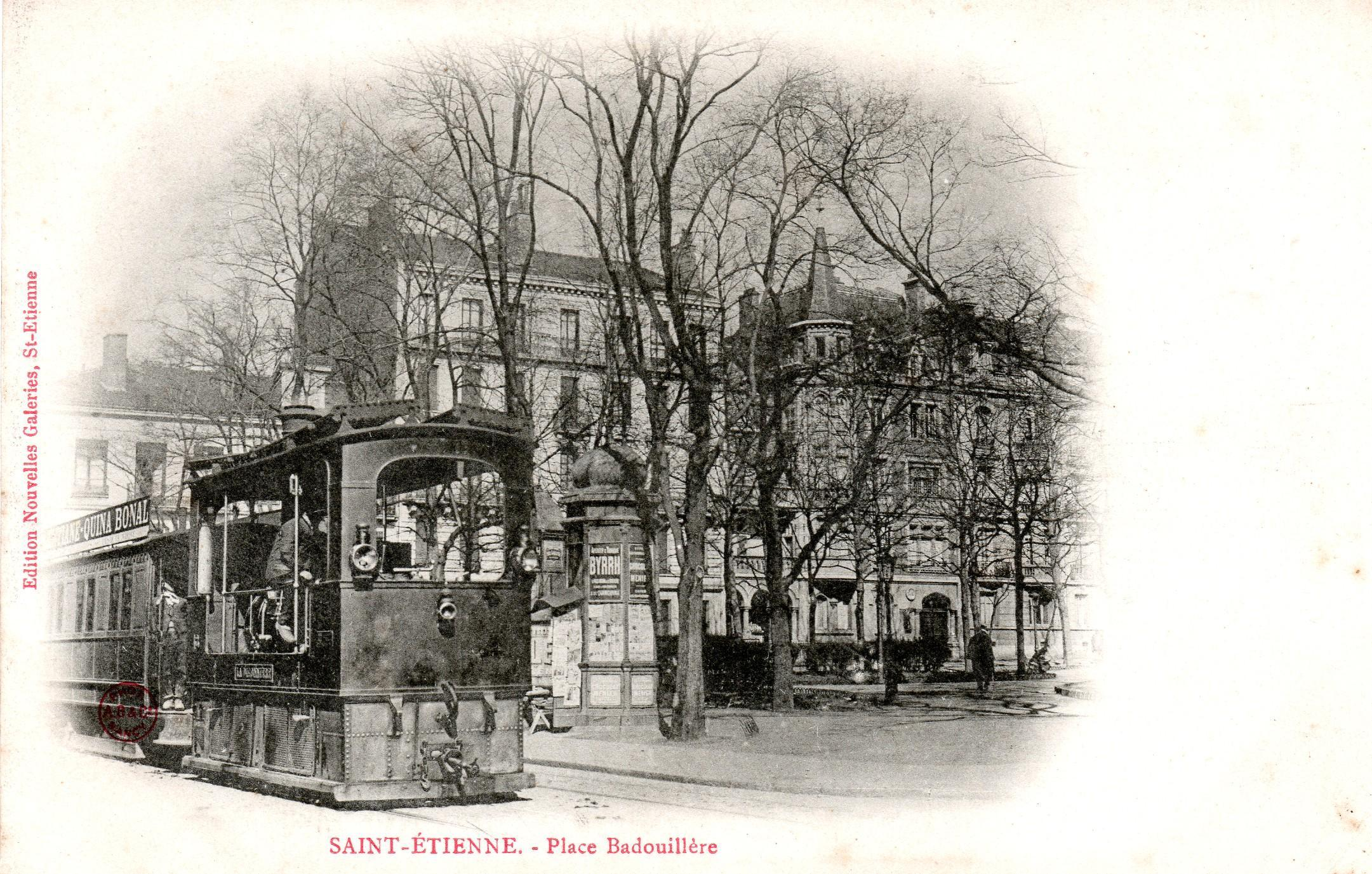 Winterthur steam-powered tram in Saint-Etienne (Loire, France), personal collection: vintage postcard from around 1890